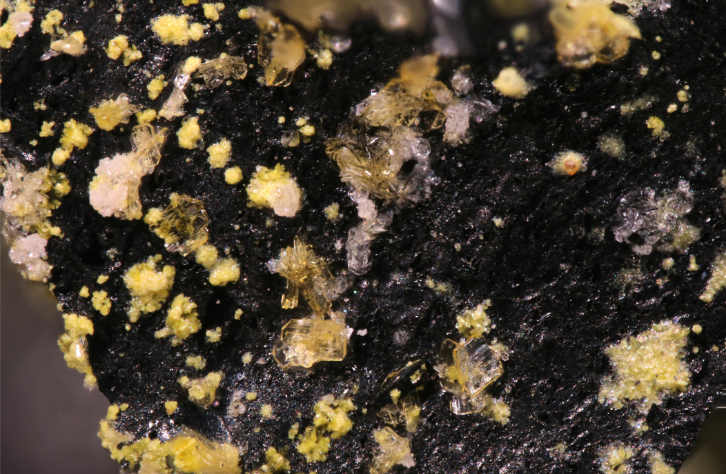 Rietveldite, Gypsum, Ferricopiapite (Field of view 1.55 mm)) Locality: Giveway-Simplot Mine, Red Canyon, White Canyon District, San Juan Co., Utah, USA Original description: Tiny euhedral rietveldite crystals sprinkled on black asphaltum matrix. Associated minerals include colorless gypsum and yellow ferricopiapite. Horizontal field of view is 1.55 mm. Collected 2006